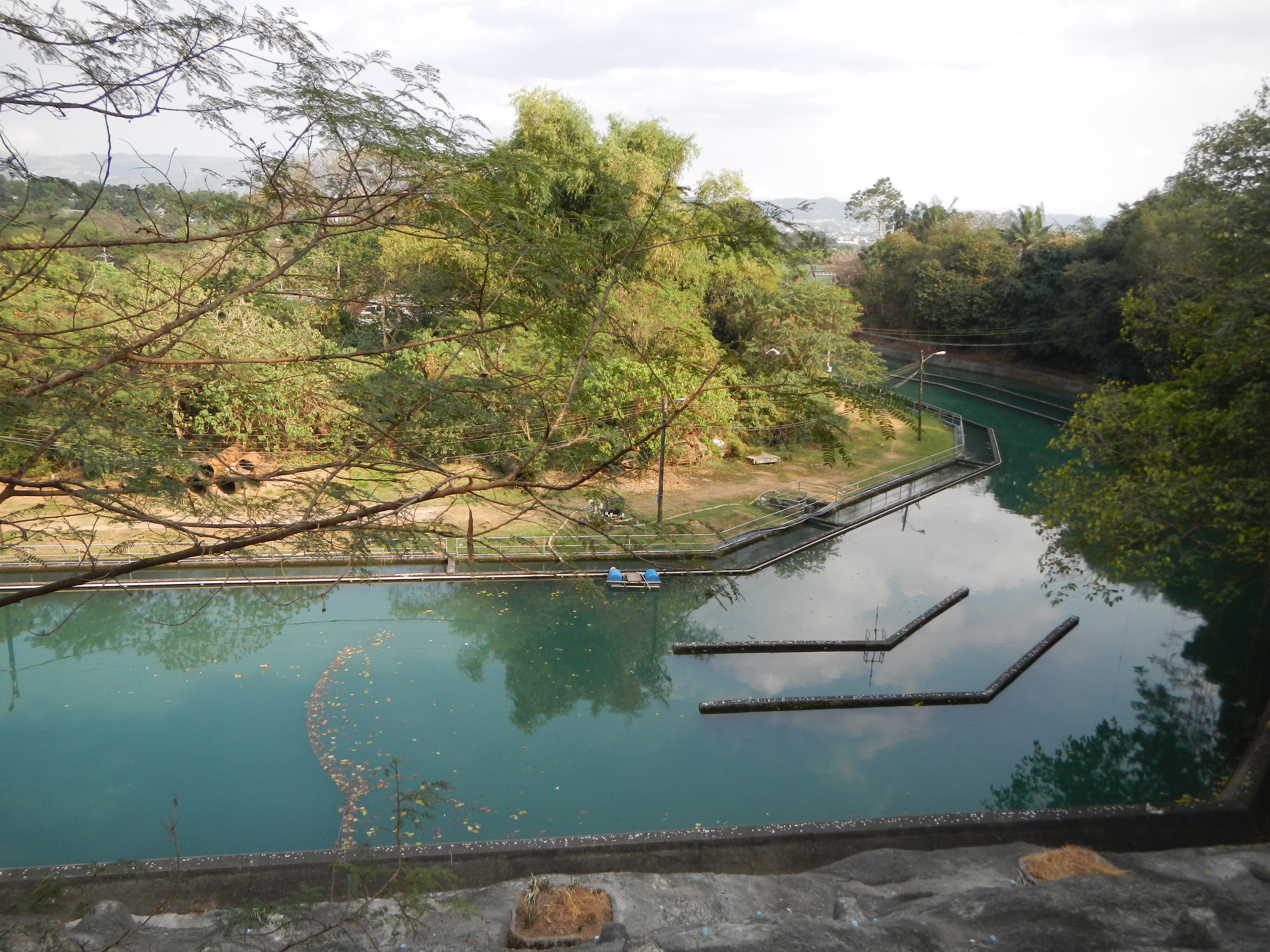 Photos of Balara Filters Park (Nature And Wildlife) - in Katipunan Extension, Diliman, Quezon City - or the Manila Water Lakbayan Cente is a 60 hectare property almost as big as Rizal Park dotted with vintage structures and statuary such as : an Italian Style Chapel, the Orosa Hall, Escoda Hall Swimming Pool, Balara Filtration Windmill, Children's Park, the MWSS Balara Water Reservoir and Filtration Plant, Water Drinking Treatment Plant this is part of the List of Art Deco architecture and List of parks in Manila. This park is managed and is under the exclusive jurisdiction of Metropolitan Waterworks and Sewerage System that is, Manila Water Water Delivery Sewerage [1] and Sanitation [2] at the Balara Treatment Plant, and also under Manila Water and finally by